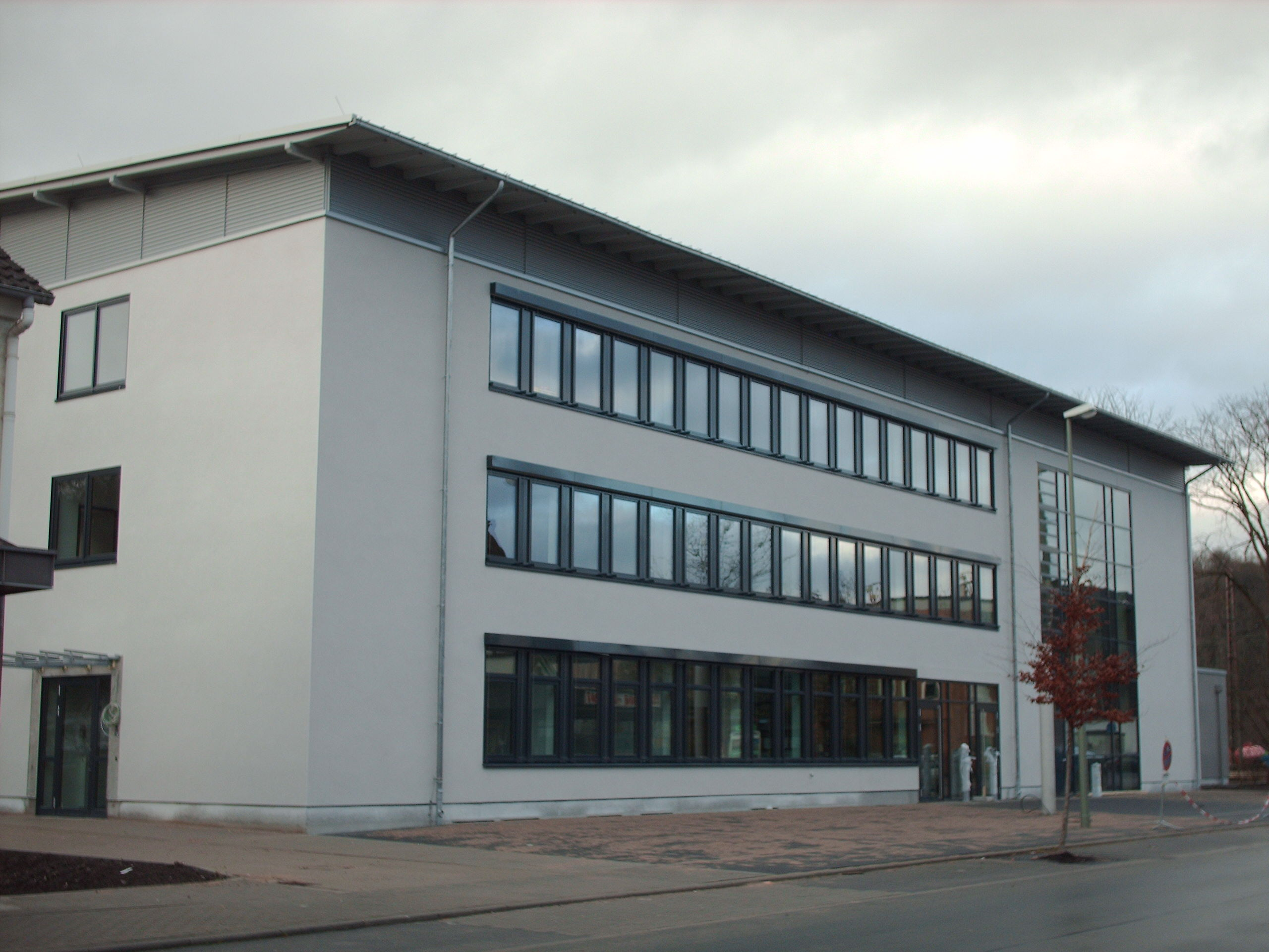 Courthouse Amtsgericht Lennestadt, Lennestadt, Germany check usage